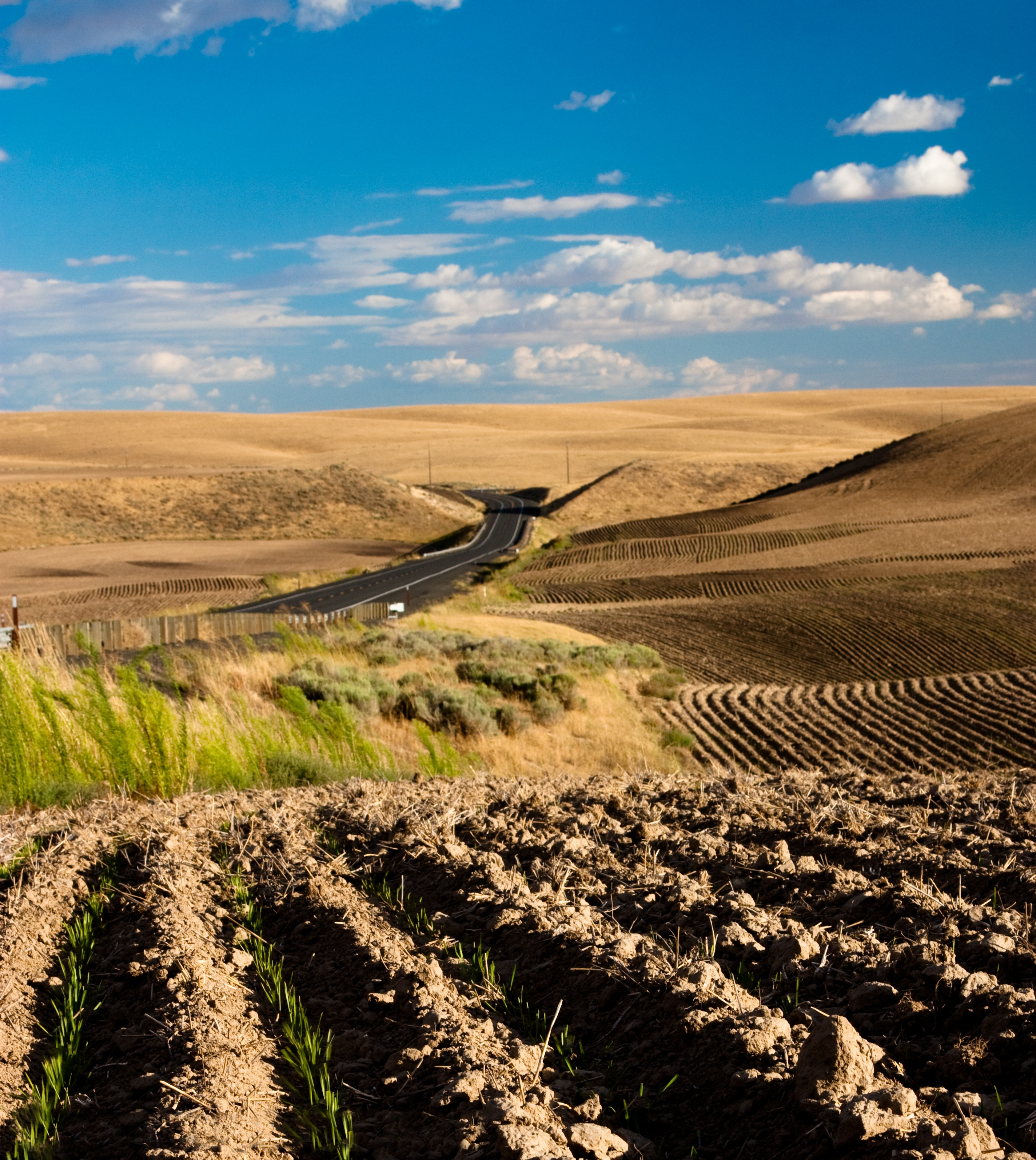 Palouse hills, Washington, USA